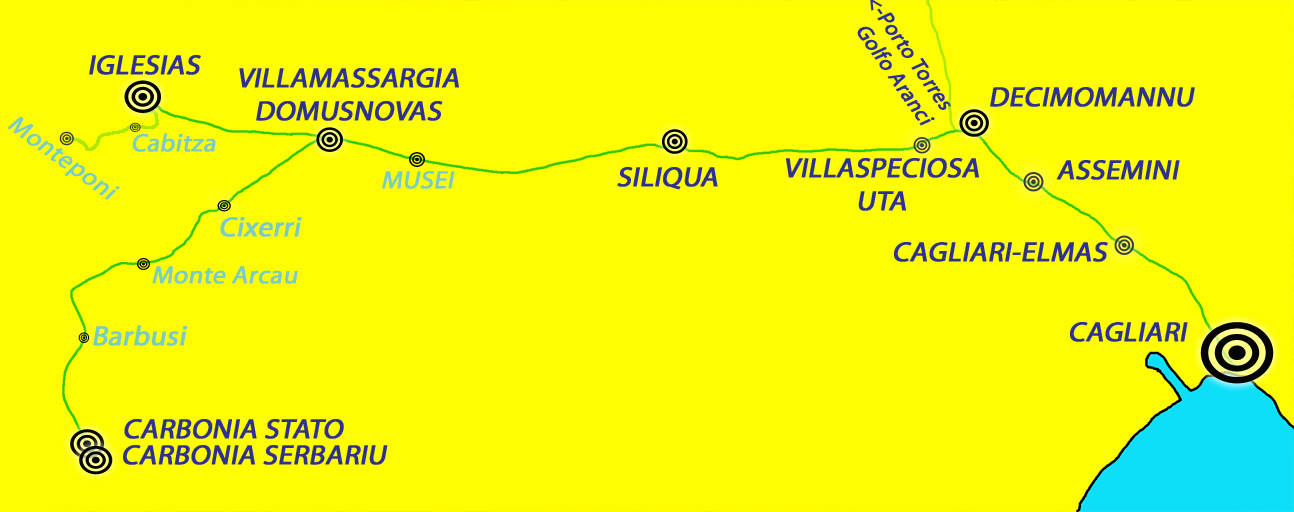 Map of the FS railway from Cagliari to Iglesias and Carbonia, in Sardinia, Italy. In light blue the halts no more active